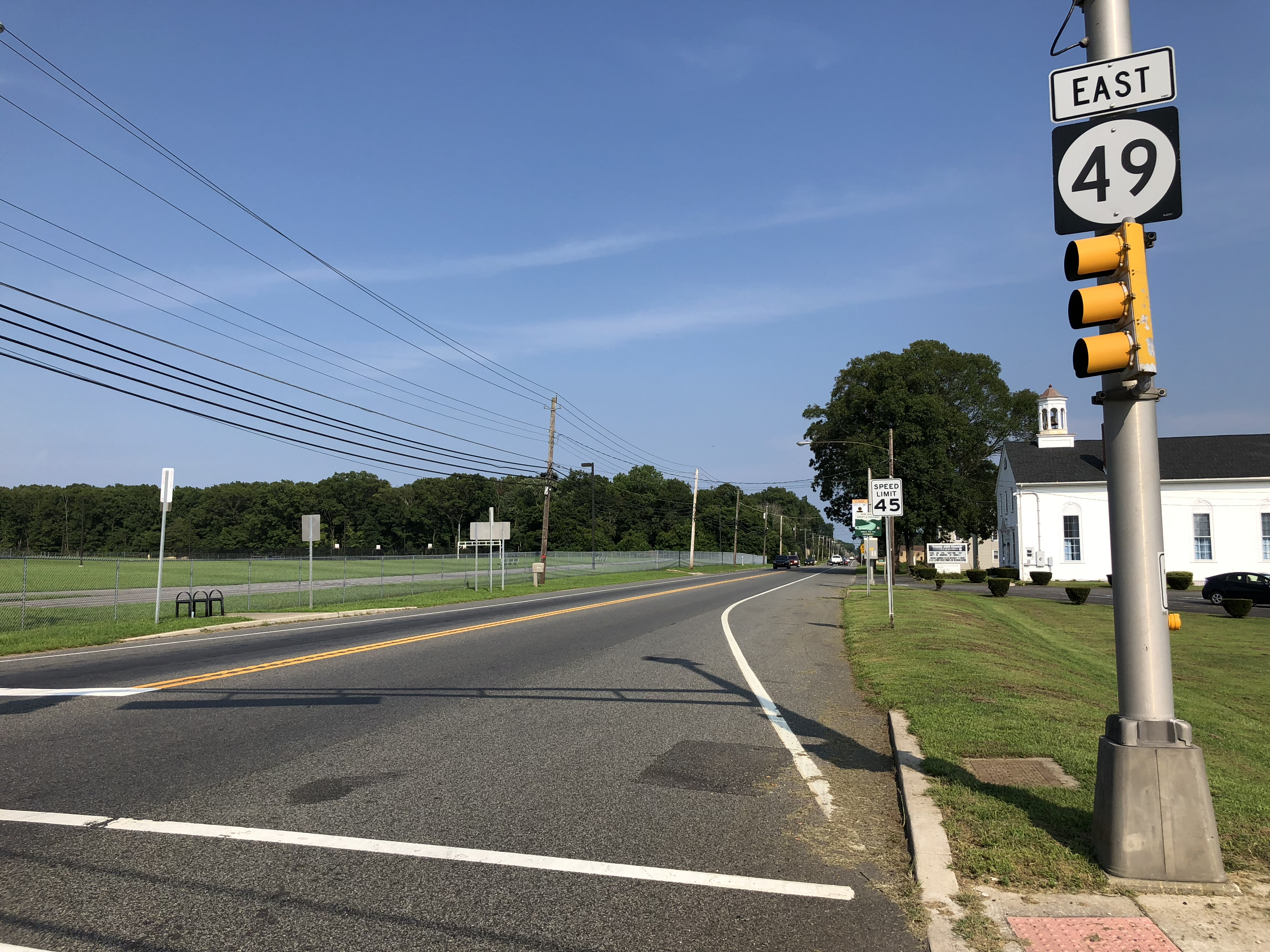 View east along New Jersey State Route 49 (Bridgeton-Millville Pike) at Cumberland County Route 553 (Gouldtown-Woodruff Road) in Fairfield Township, Cumberland County, New Jersey